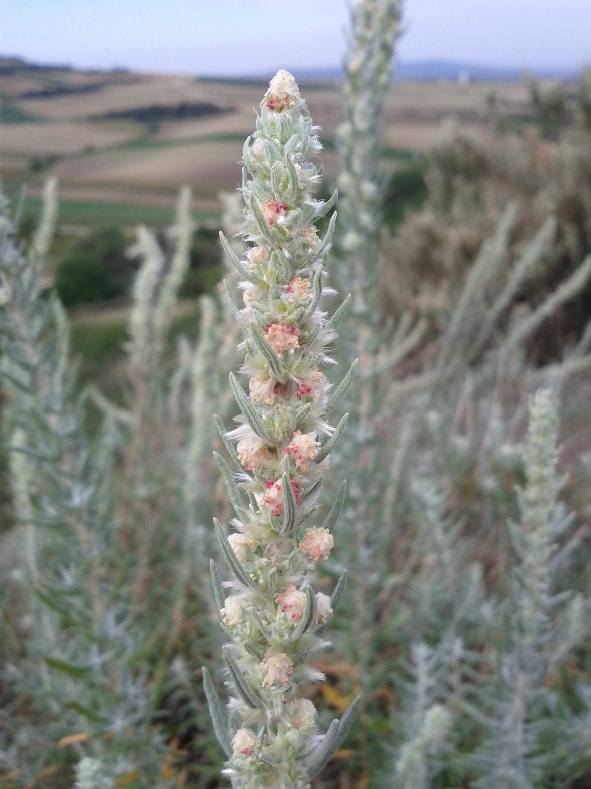 Inflorescence Taxonym: Krascheninnikovia ceratoides ss Fischer et al. EfÖLS 2008 ISBN 978-3-85474-187-9 Location: Natural monument Blauer Berg near Oberschoderlee, district Mistelbach, Lower Austria - ca. 280 m a.s.l. Habitat: dry grassland